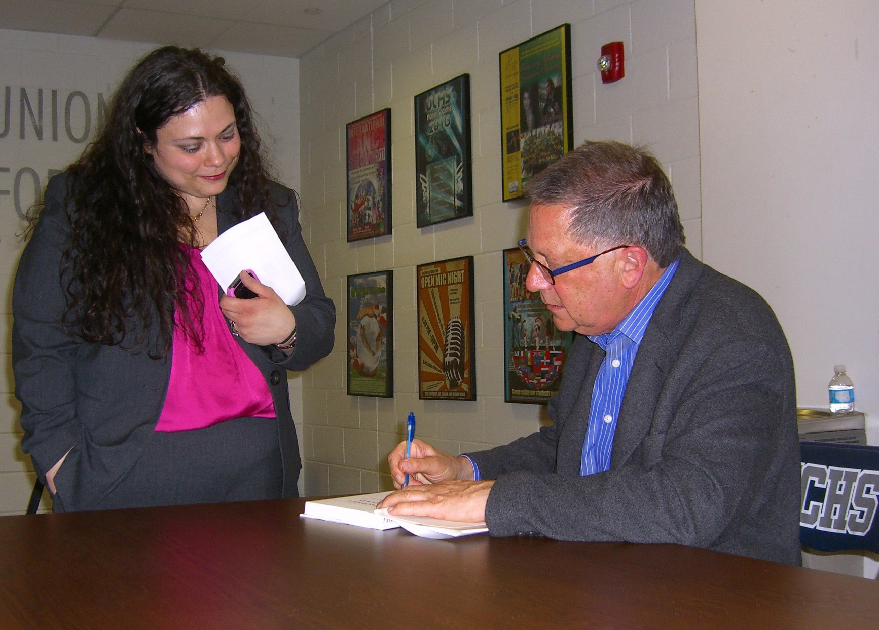 Kristine Nazzal, an English as a Second Language (ESL) teacher at Union City High School in Union City New Jersey, and the 2012 Hudson County Teacher of the Year, gets her copy of the 2013 book Improbable Scholars signed by its author, University of California, Berkeley Professor David L. Kirp, at Union City High School on March 26, 2013. The signing followed a Q&A session in which Kirp discussed Union City's educational system, which is a central topic in the book. This photo was created by Luigi Novi. It is not in the public domain, and use of this file outside of the licensing terms is a copyright violation.